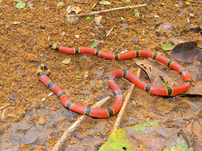 Micrurus browni from Berriozabal, Chiapas (Mexico)